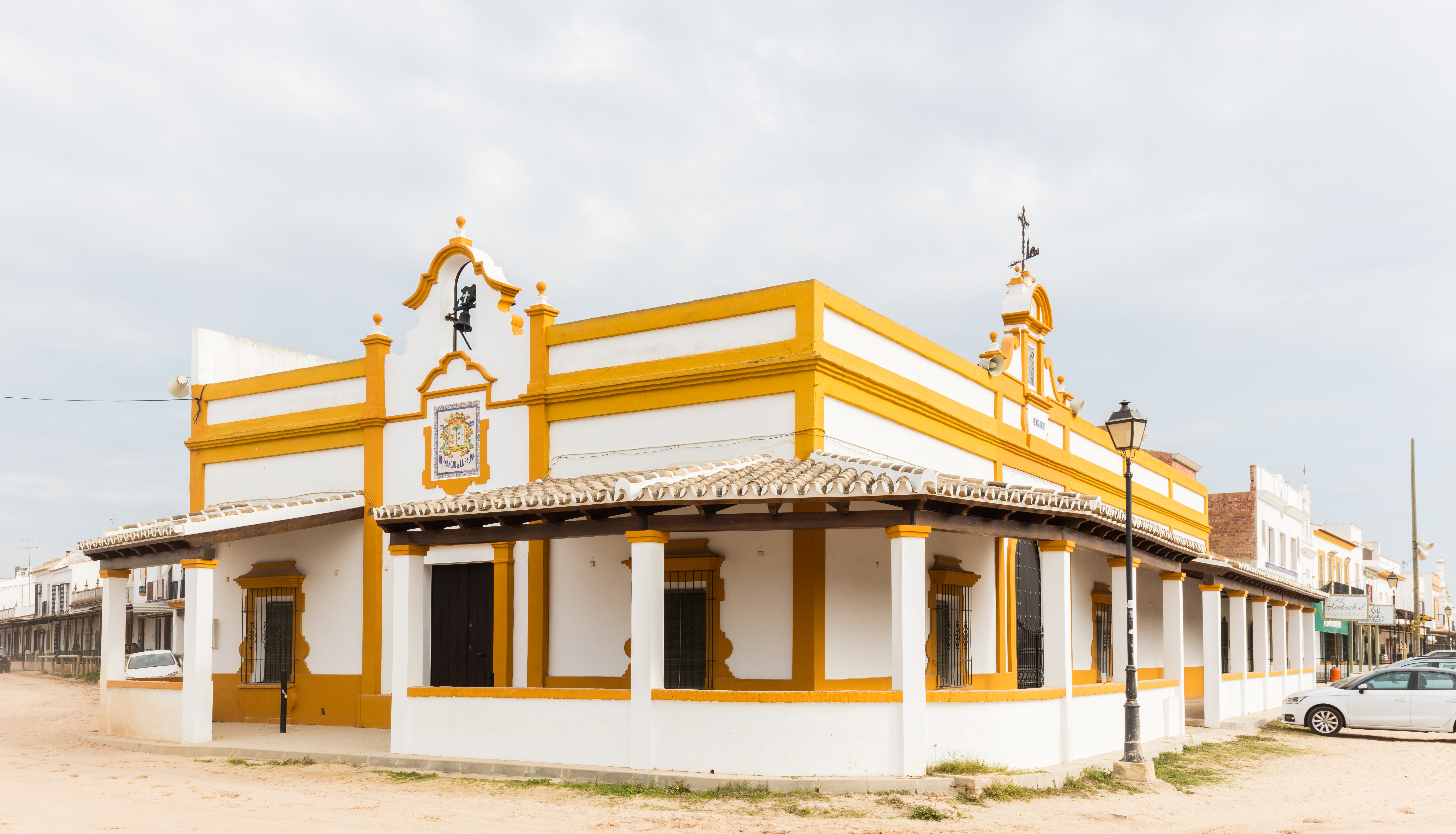 Hermandad de La Palma, El Rocío, Huelva, Spain